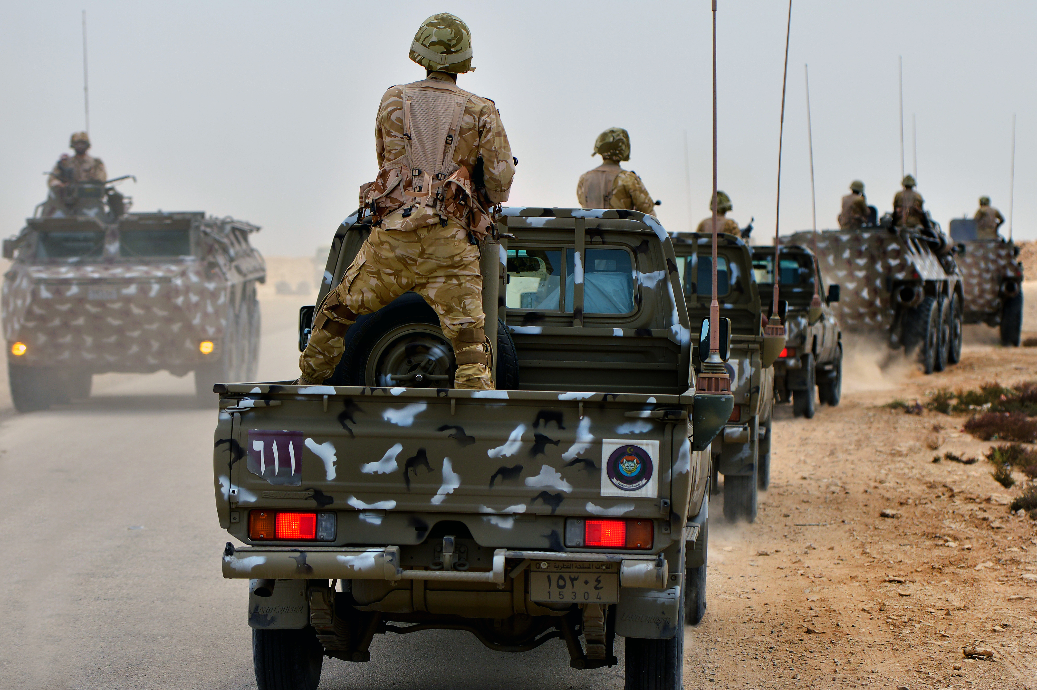 Qatar Armed Forces members convoy to a simulated terrorist cell to conduct a joint counter-terrorism exercise with U.S. military members and other partner nations in Zikrit, Qatar, April 28. The field training exercise brought multi-national forces together to disrupt the simulated terrorist cell as part of Exercise Eagle Resolve 2013. Exercise Eagle Resolve demonstrates U.S. Central Commandâ€™s dedication to Gulf Cooperation Council regional partners and the combined efforts to sustain regional security and stability. (U.S. Air Force photo by Staff Sgt. Kenny Holston/Released) Unit: 20th Fighter Wing Public Affairs DVIDS Tags: Qatar; 3rd Battalion; USCENTCOM; 2nd Marines; AFCENT; NAVCENT; U.S. Air Force; U.S. Army; U.S. Navy; USS San Antonio; ARCENT; Holston; Eagle Resolve; Eagle Resolve 2013; U.S. Marine Lima Company; CH-53 Super Stallion helicopters; USAF SSgt Holston SOCCENT; and U.S. Marines